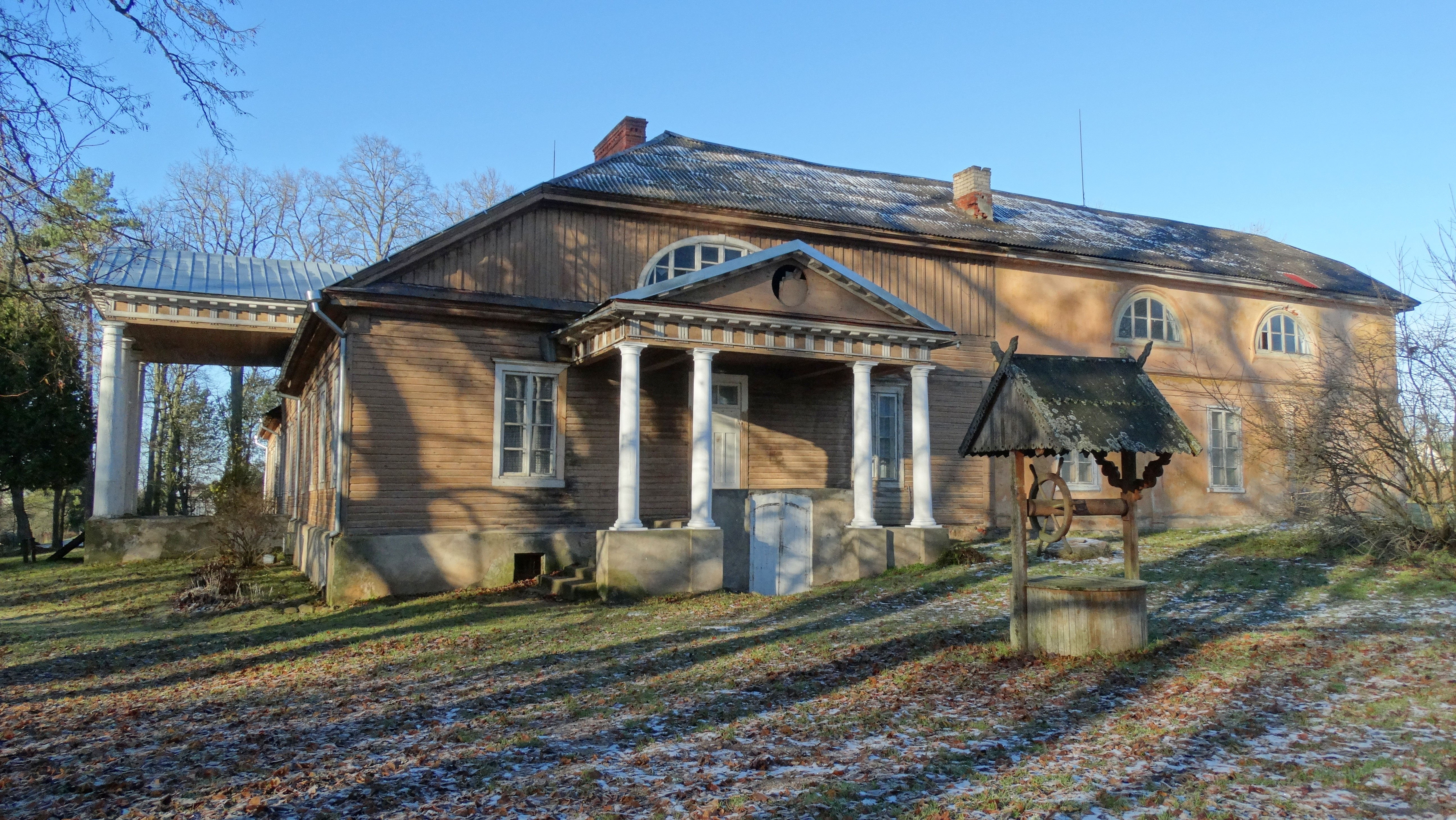 Manor, Veliuona, Jurbarkas district, Lithuania